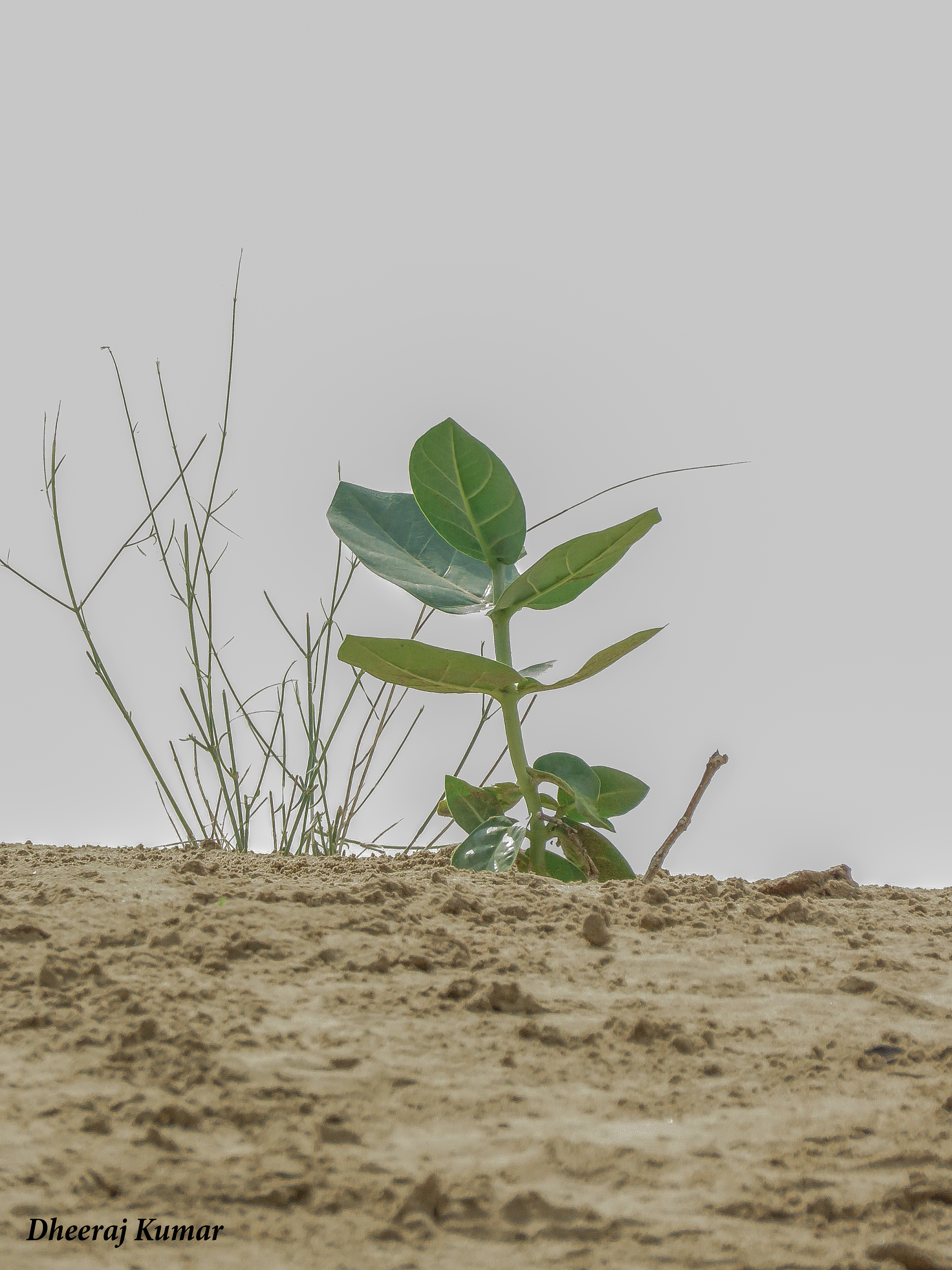 akk is plant in thar